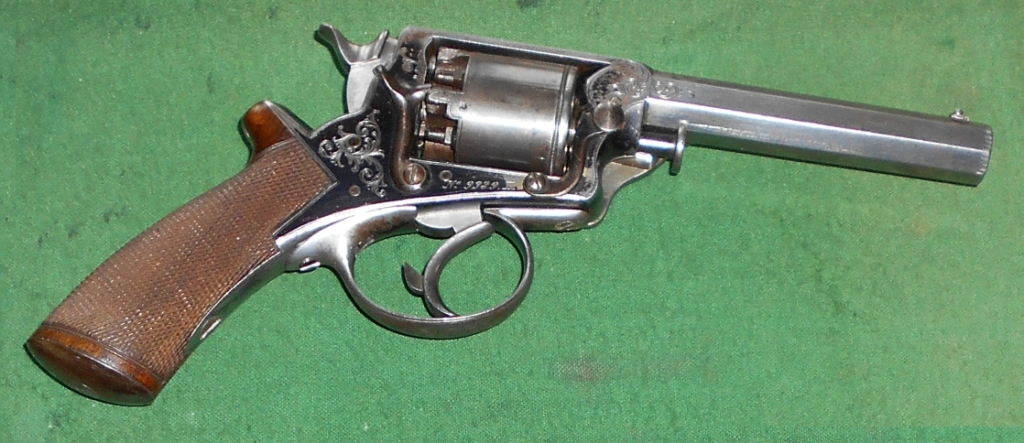 2ndTranter Revolver